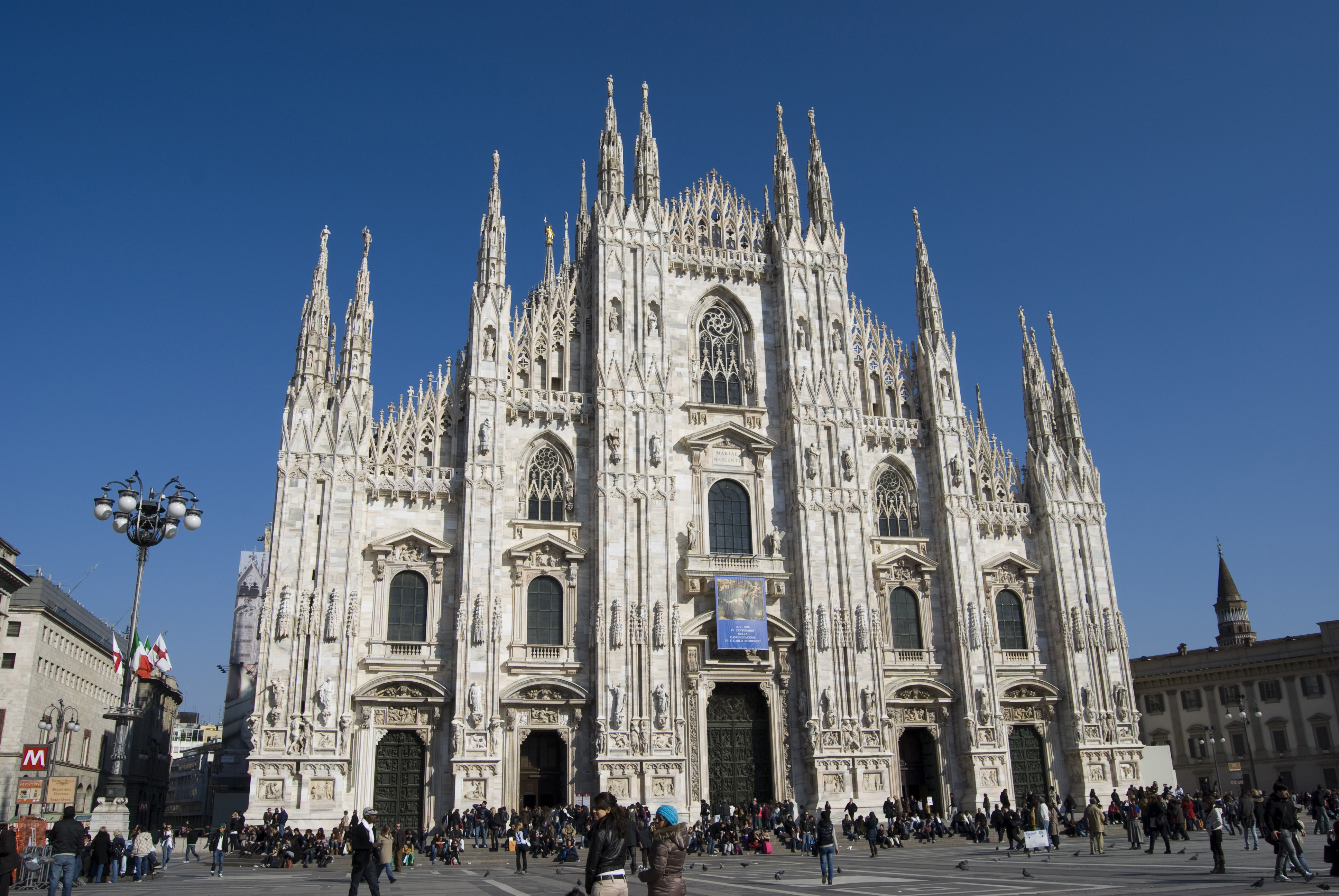 Exterior of the Duomo (Milan)